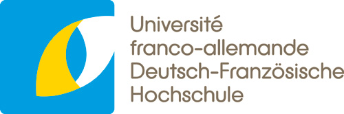 logo of the Franco-german University